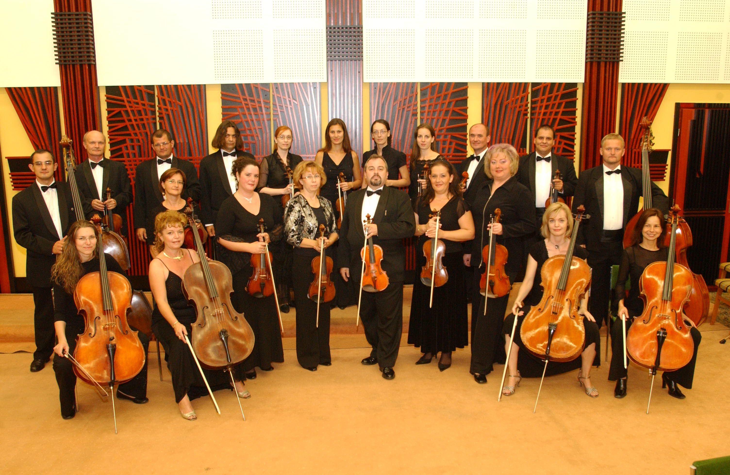 The Szeged Chamber Orchestra in the Korzó Music Hall in Szeged (2008)